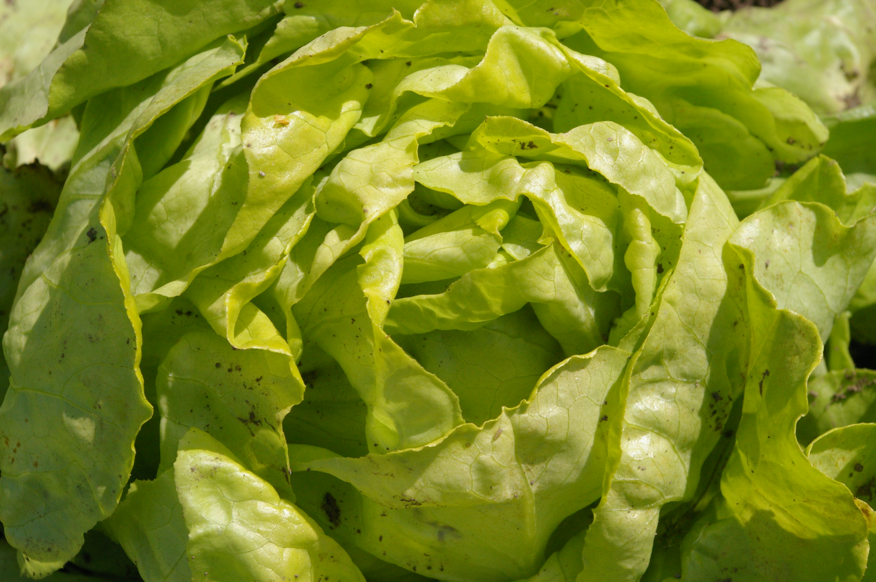 lettuce